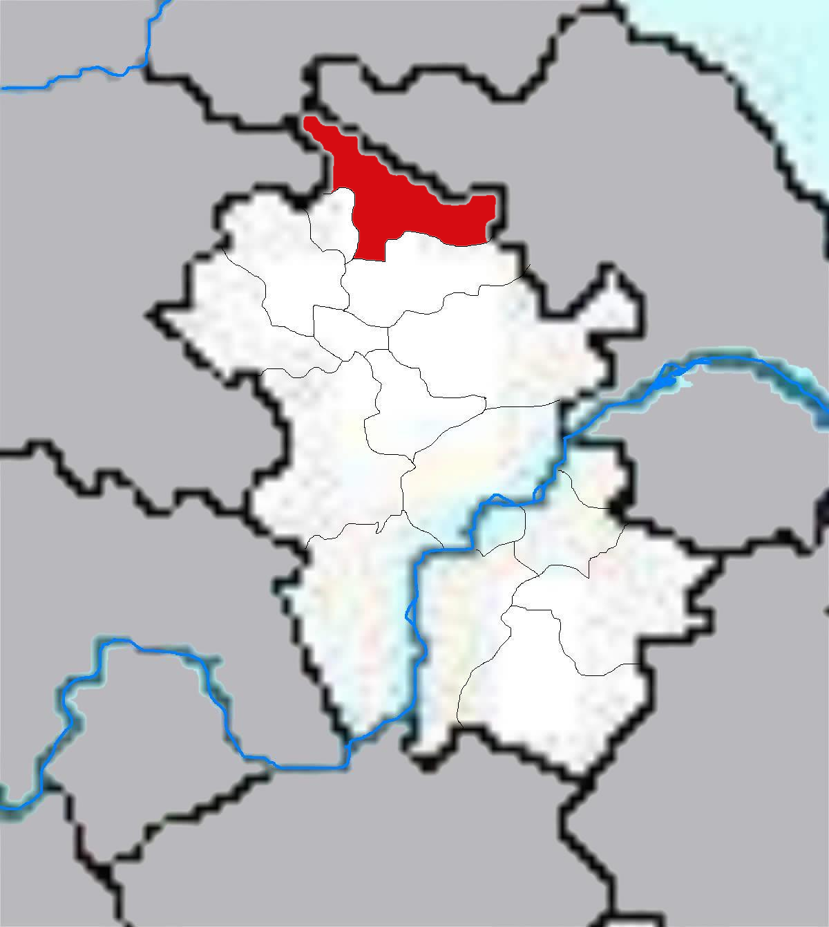 Maps of Anhui Province of China